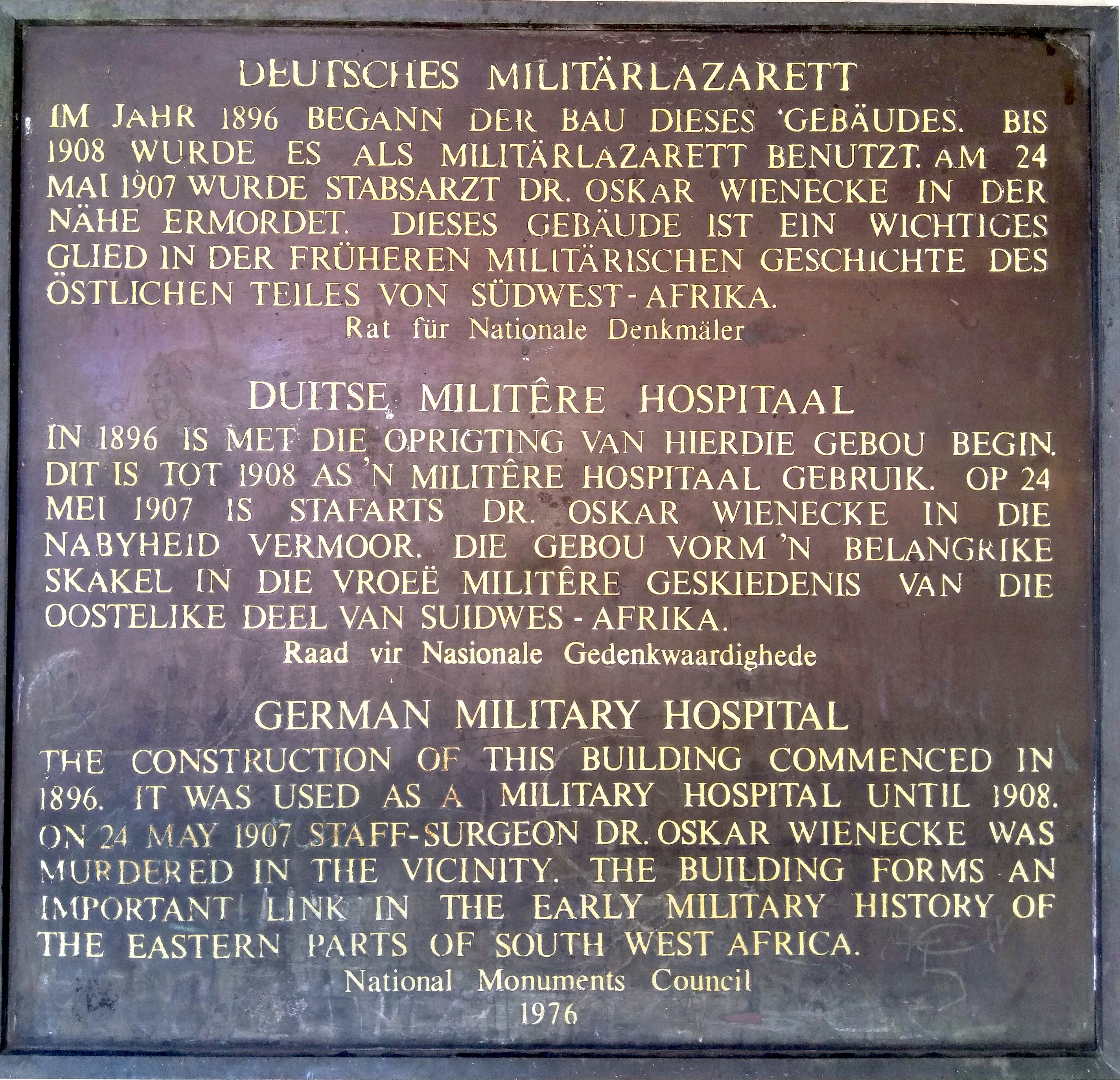 Plate of German Military Hospital in Gobabis